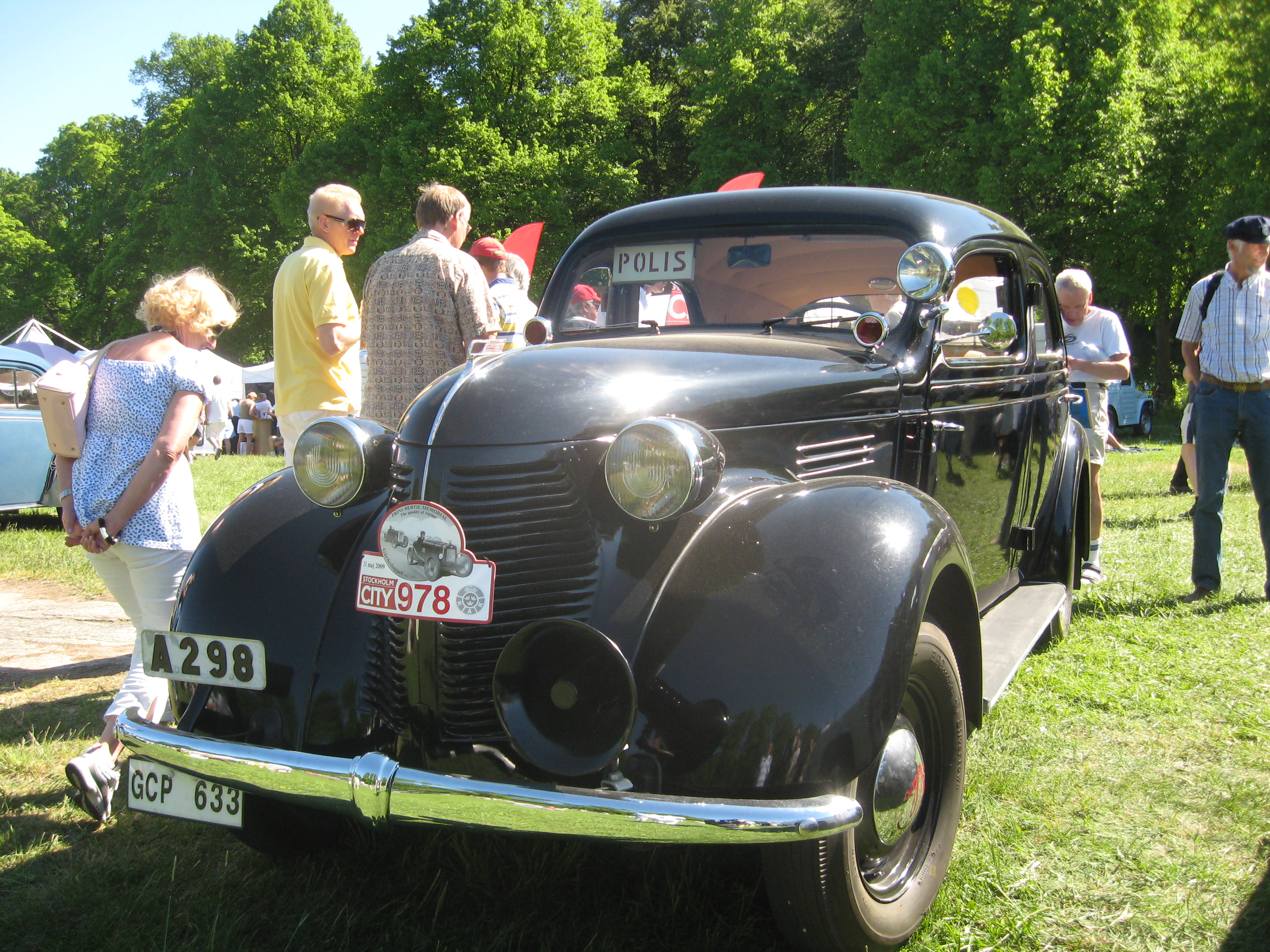 1939 Volvo PV 56 police car. Straight 6 engine of 3.7 litres giving 86 hp. Weight 1490 kg. 3 speed gear box with unsynced first.